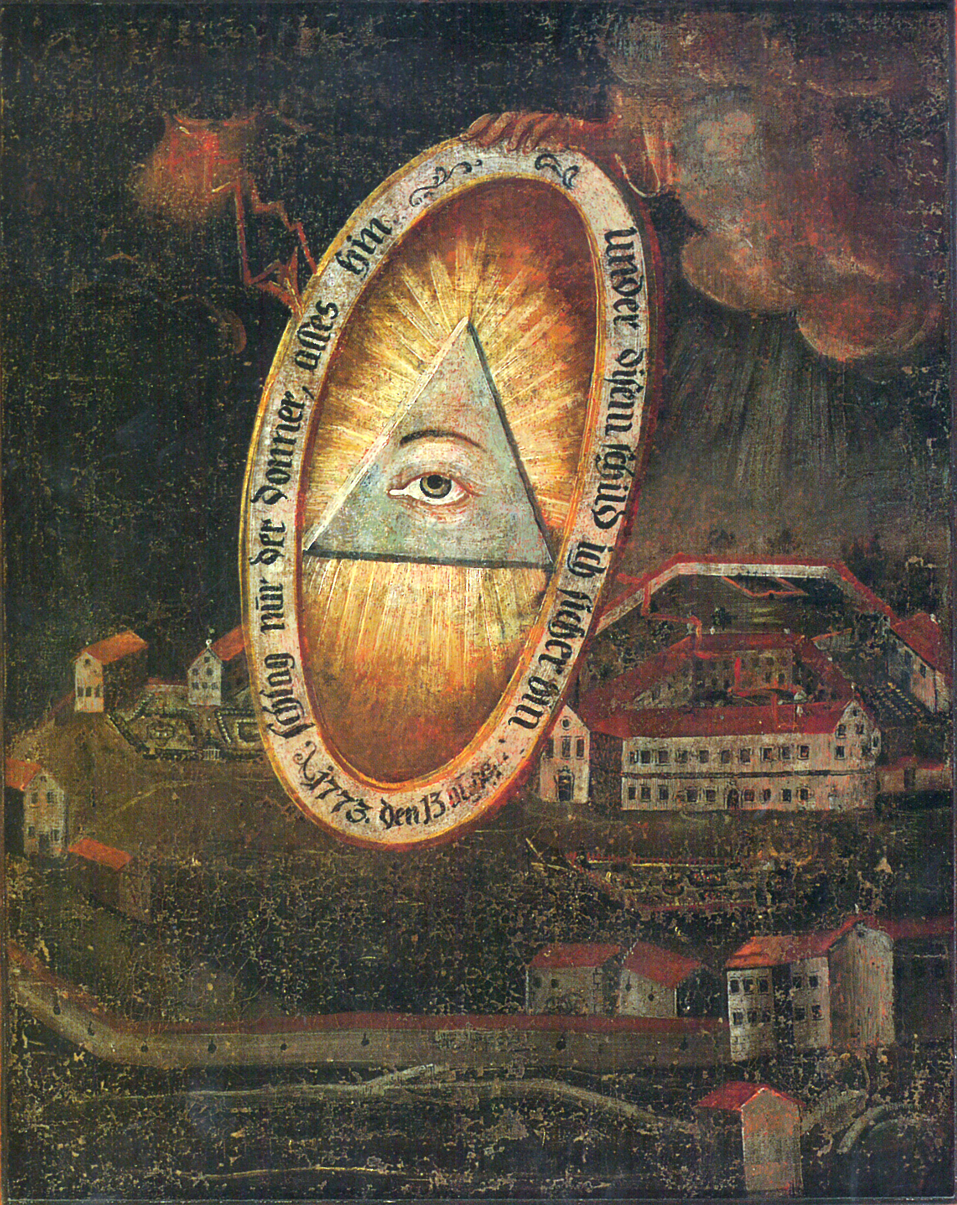 Anonymous oil painting from 1773 titled "Baindt Abbey under the protection of the Holy Trinity".